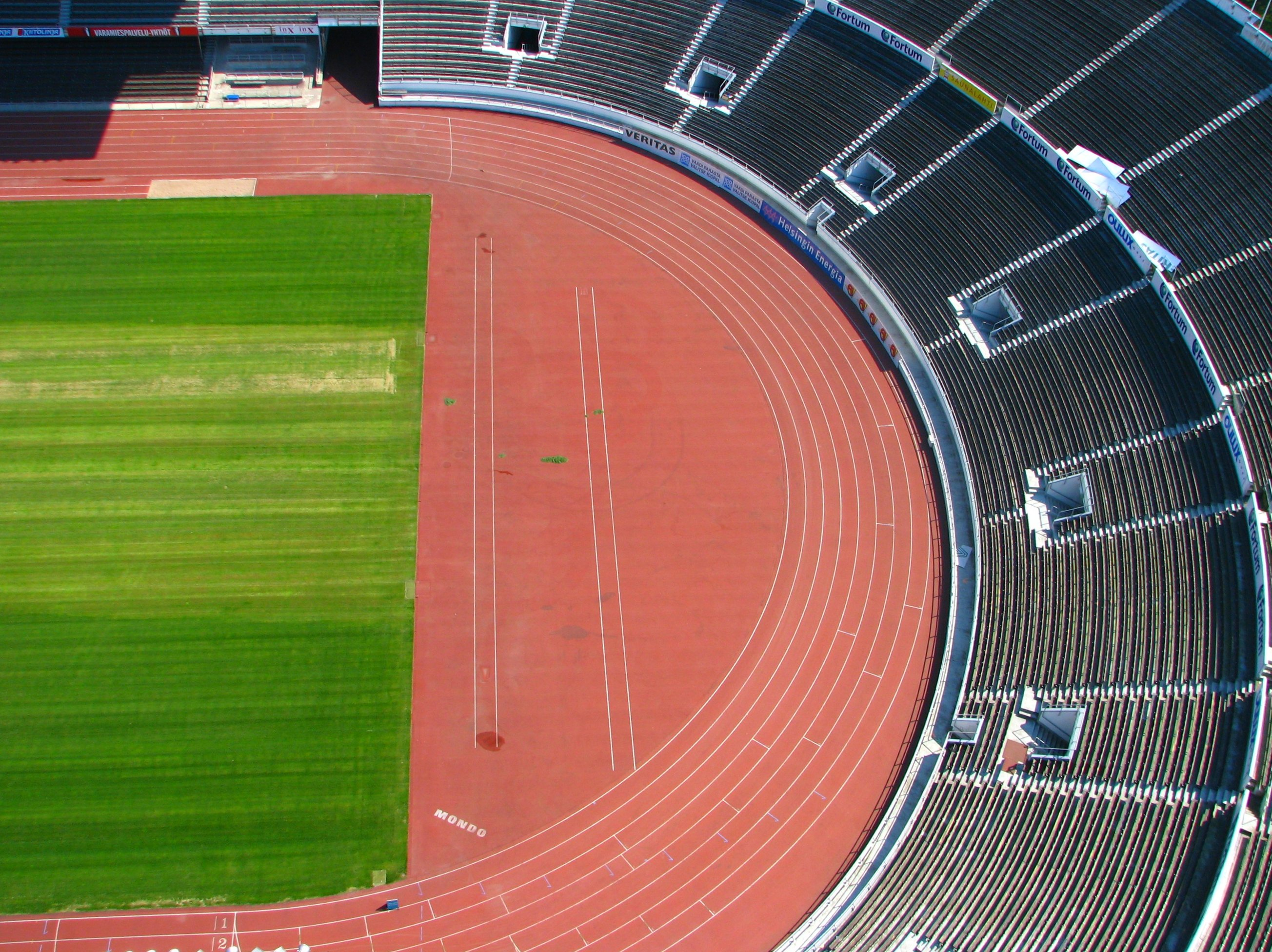 Helsinki Stadium track and field